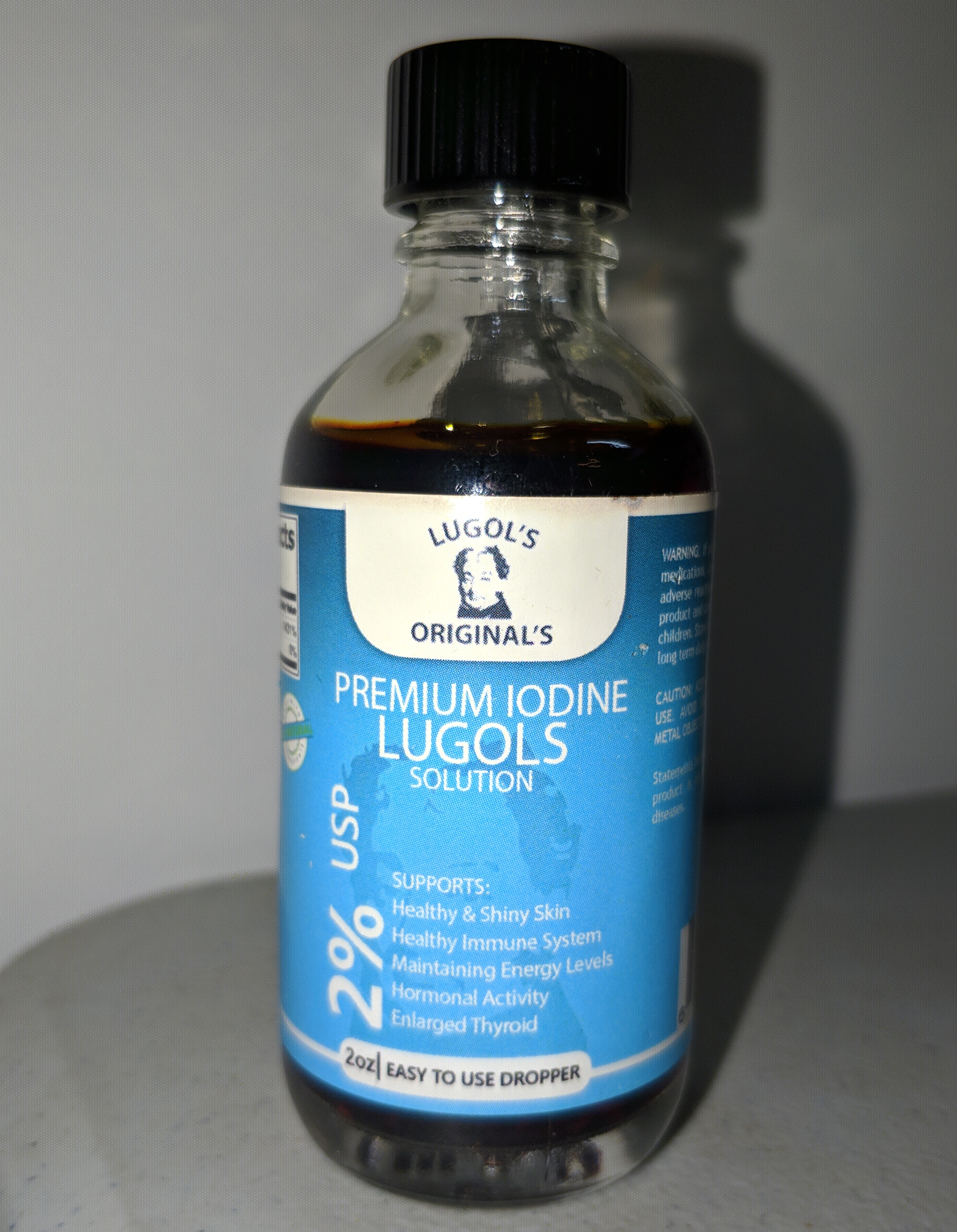 2% Lugols Iodine Solution Drops Thyroid Support Supplement 2oz